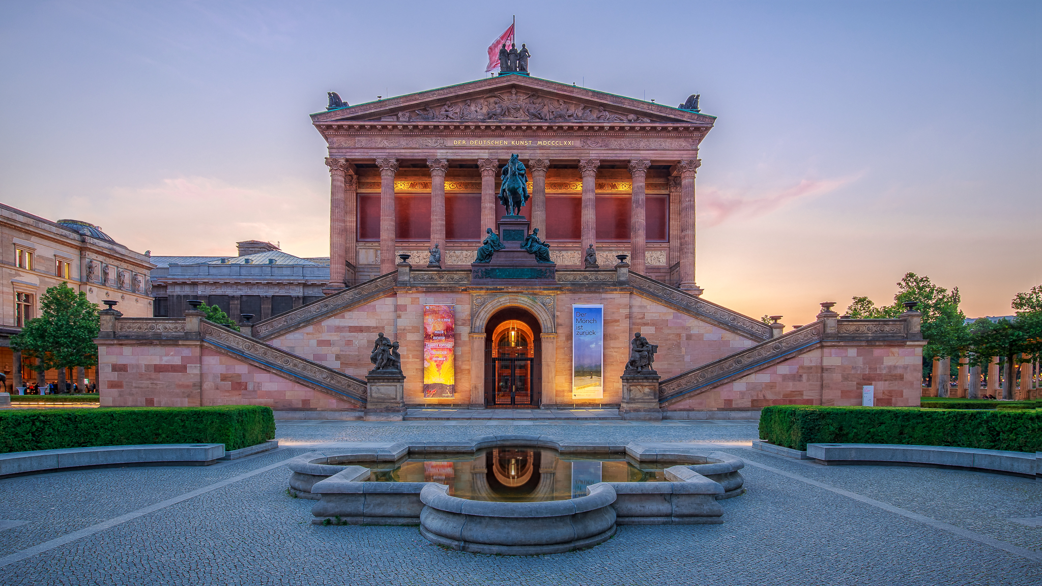 Alte Nationalgalerie